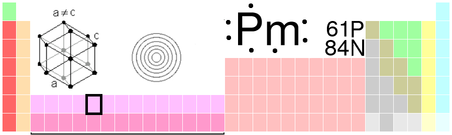 This image was copied from . The original description was: Promethium table image created by schnee for Wikipedia on June 23 2003, 13:55 UTC.